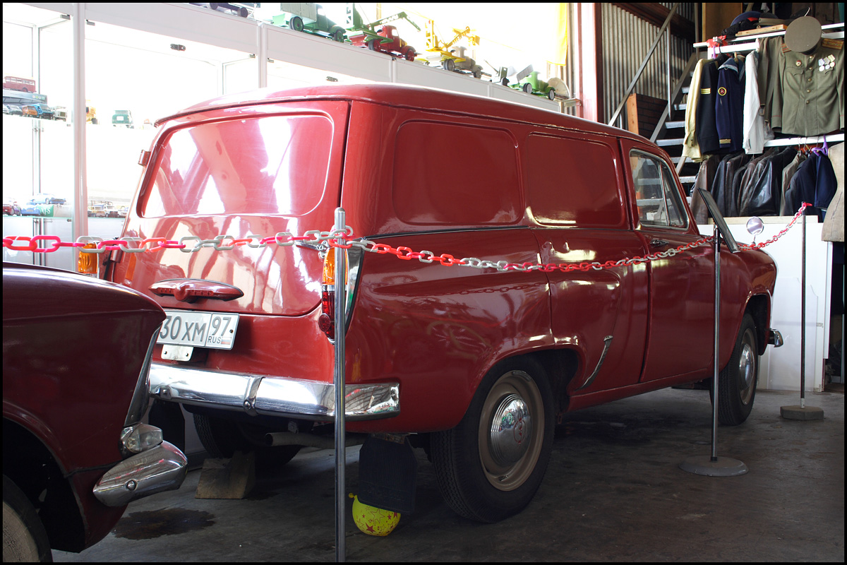 Moskvich 430, Museum of Carriages and Cars (Музей экипаже и автомобилей), Moscow, Russia.